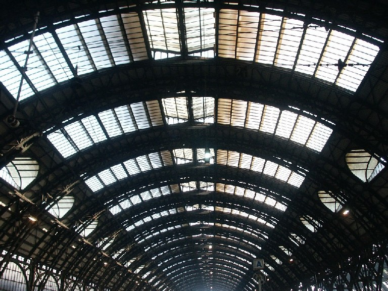 Milan, Stazione centrale: the trainshed.